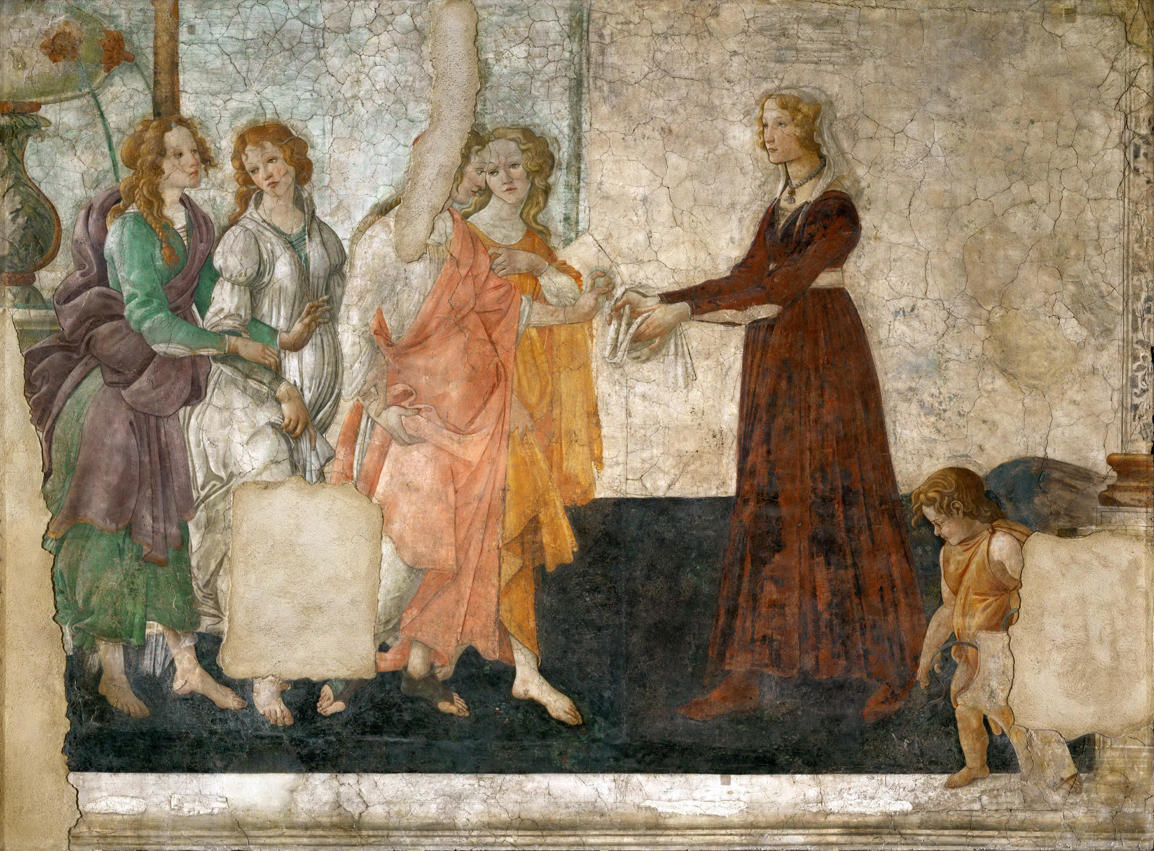 This fresco, along with RF 322, was discovered at Villa Lemmi, near Florence in 1873. They could have been commisssionned for the marriage of Nanna di Niccolò Tornabuoni and Matteo di Andrea Albizzi. The woman on the right could be the bride to whom Venus offers a gift[1].